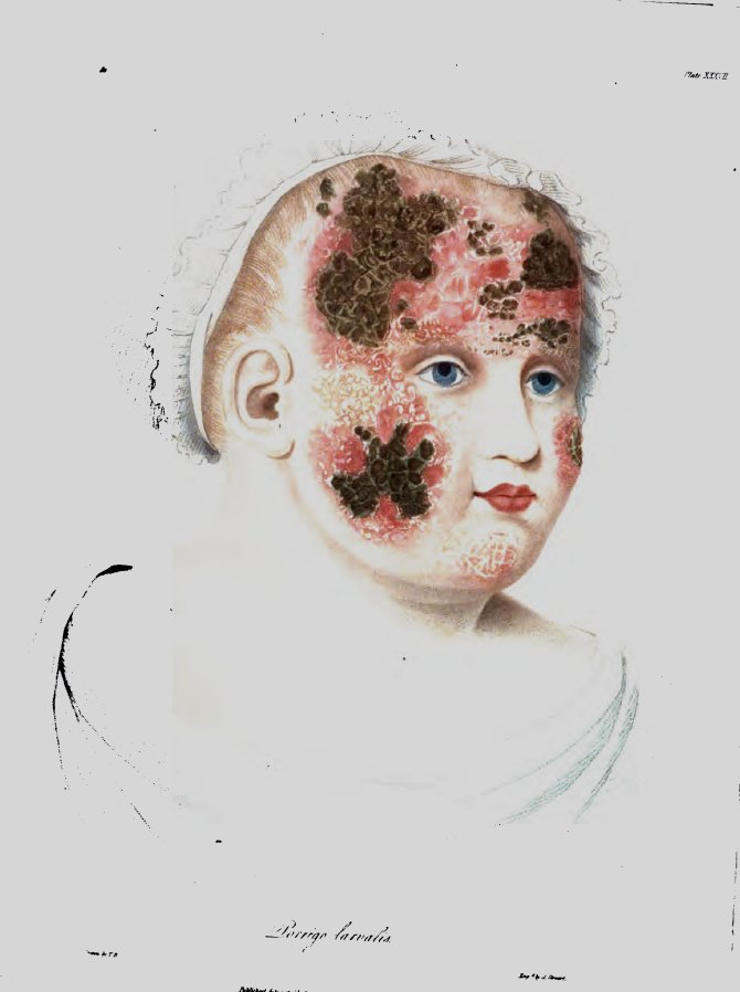 Is considered as one of the first pictures of the disease which is now known as atopic eczema